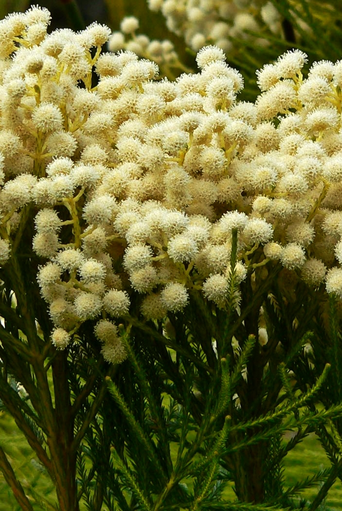 Photo of Berzelia lanuginosa at the University of California Botanical Garden, taken March 2006 by User:Stan Shebs